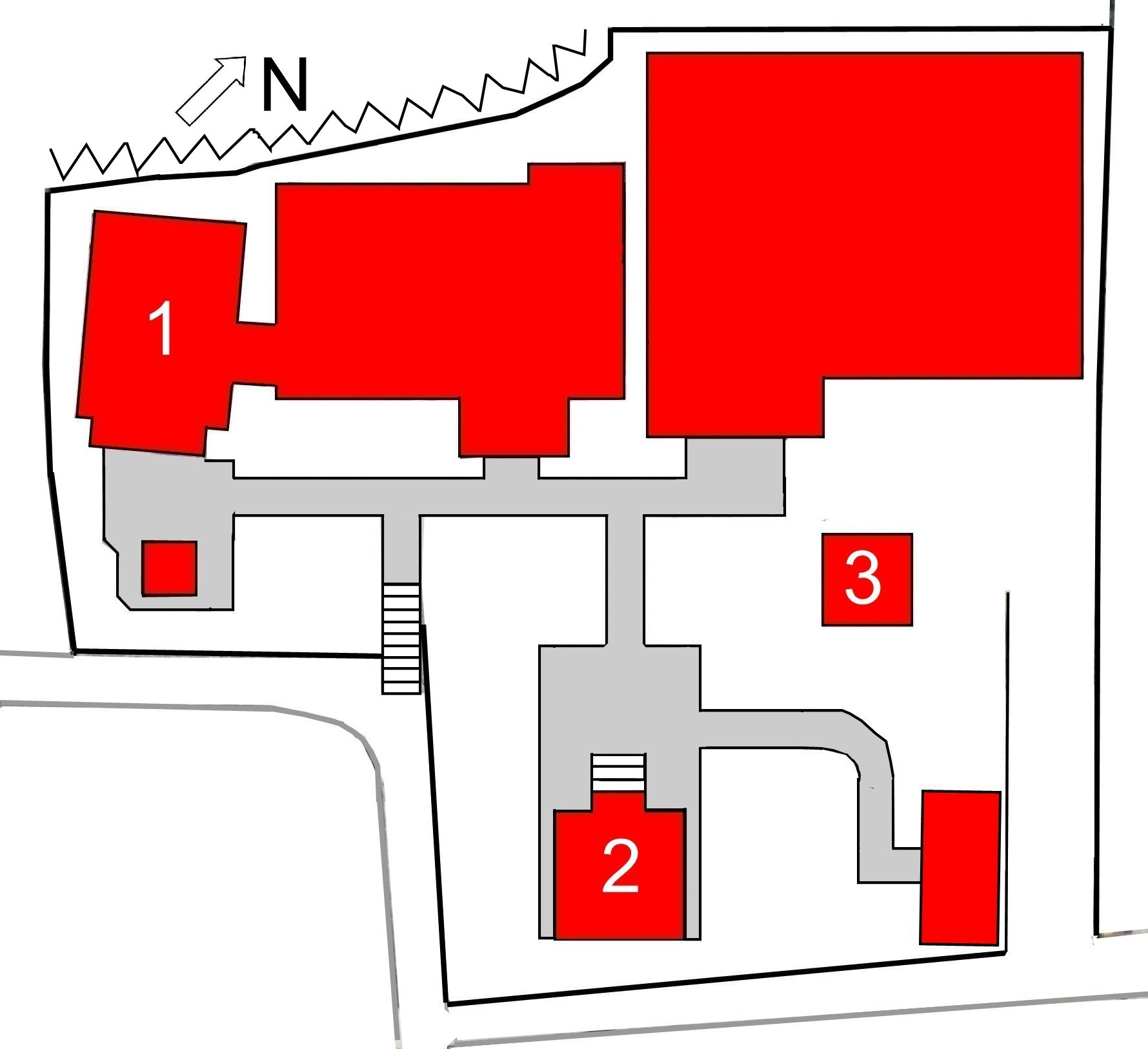 Layout of Taisanji temple, Imabari, Japan